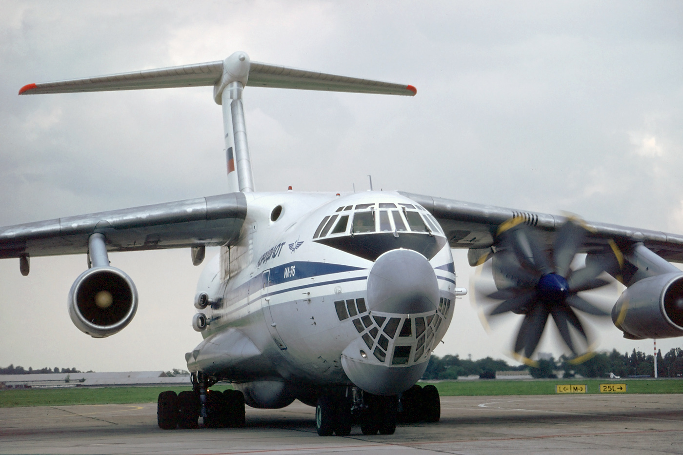 A special IL-76 (RA-76529) arriving at Berlin Schönefeld for ILA 1994. This one was operated by the Zhukovsky Research Institute as a test aircraft for the D-236T propfan.